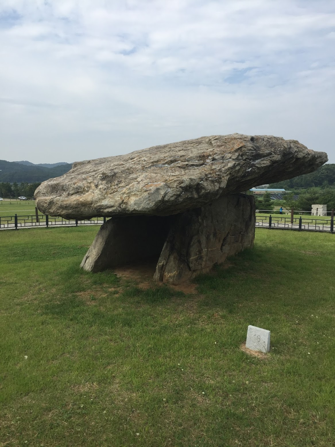 Ganghwa Bugeon-ri Dolmen